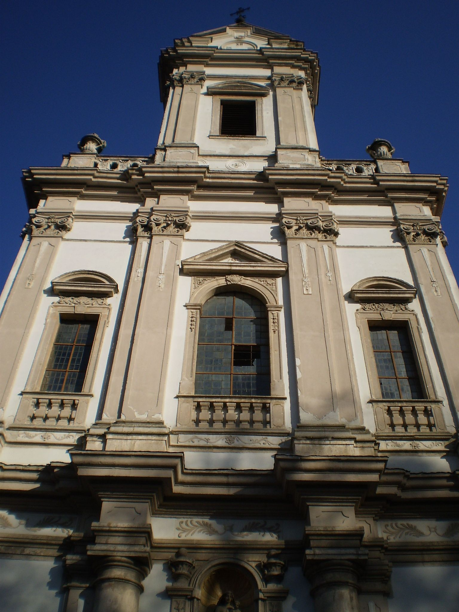 Tower of the Carmelite church, Sopron, Hungary